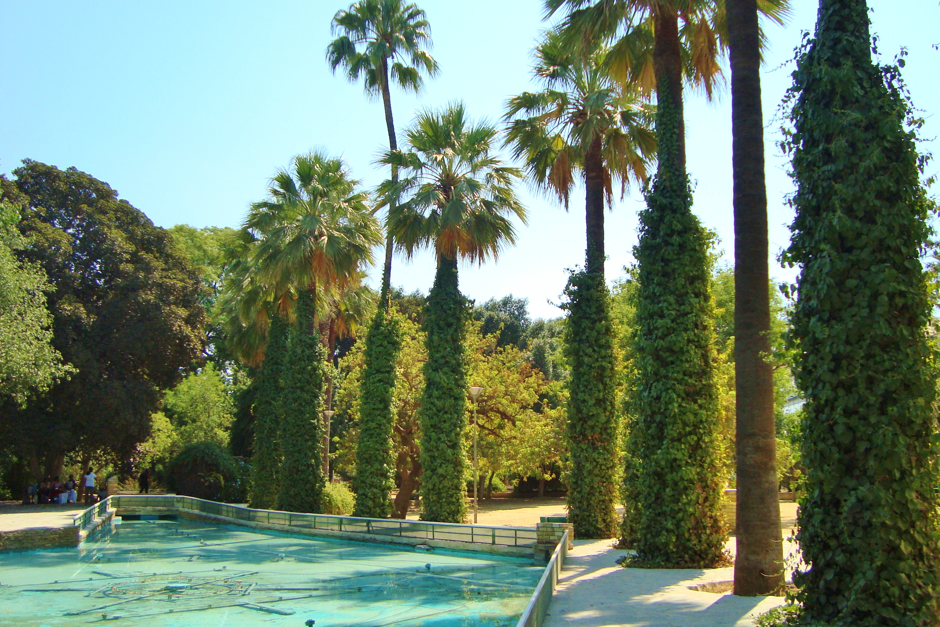 Fountain at historical Nicosia Municipal Gardens - in Republic of Cyprus.